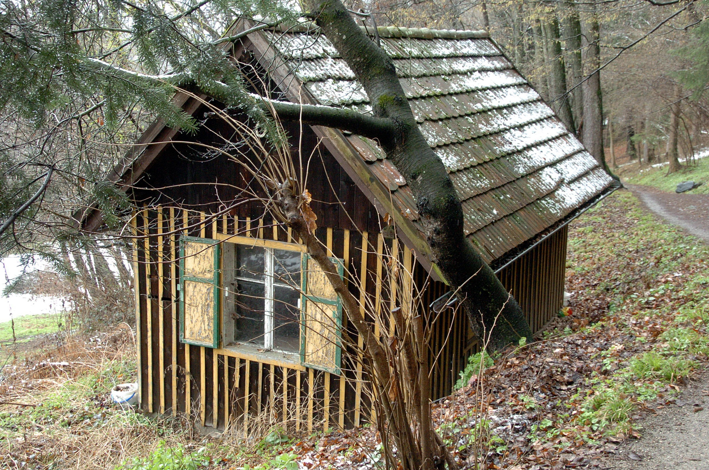 Former beehive on Quellweg in Winklern, municipality Pörtschach am Wörther See, district Klagenfurt Land, Carinthia, Austria, EU